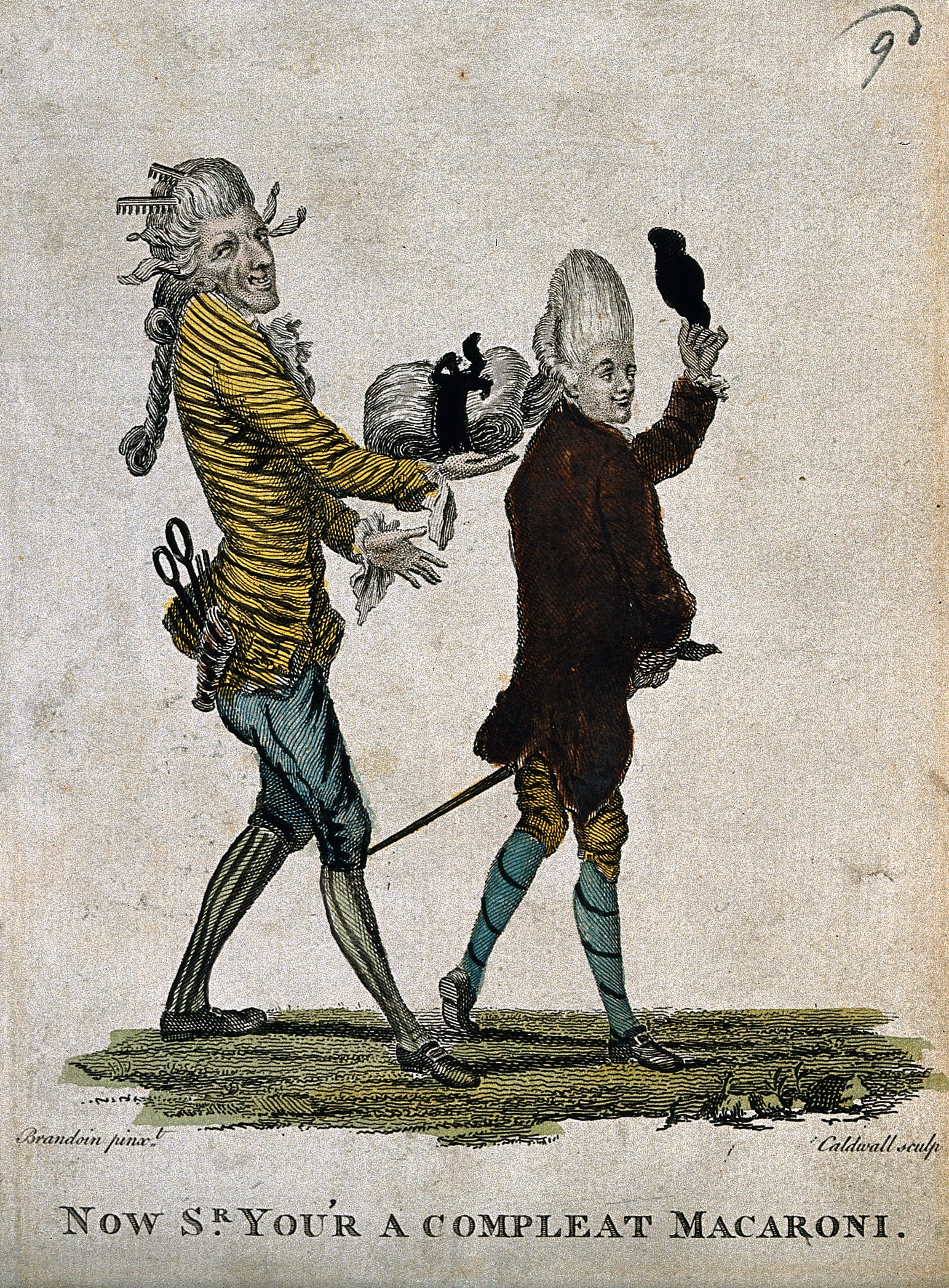 A fashionable man takes his hat off whilst strolling; his hairdresser assists him by supporting the weight of his large wig. Iconographic Collections Keywords: Wig; Hairstyle; Fashion; Hair; Michel-Vincent Brandoin; Wig macker; James Caldwall; Hairdressing